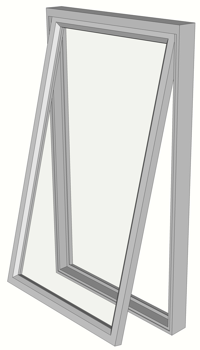 Representation of an Awning window - (from AWS. Model #: Magnum 616 Light)